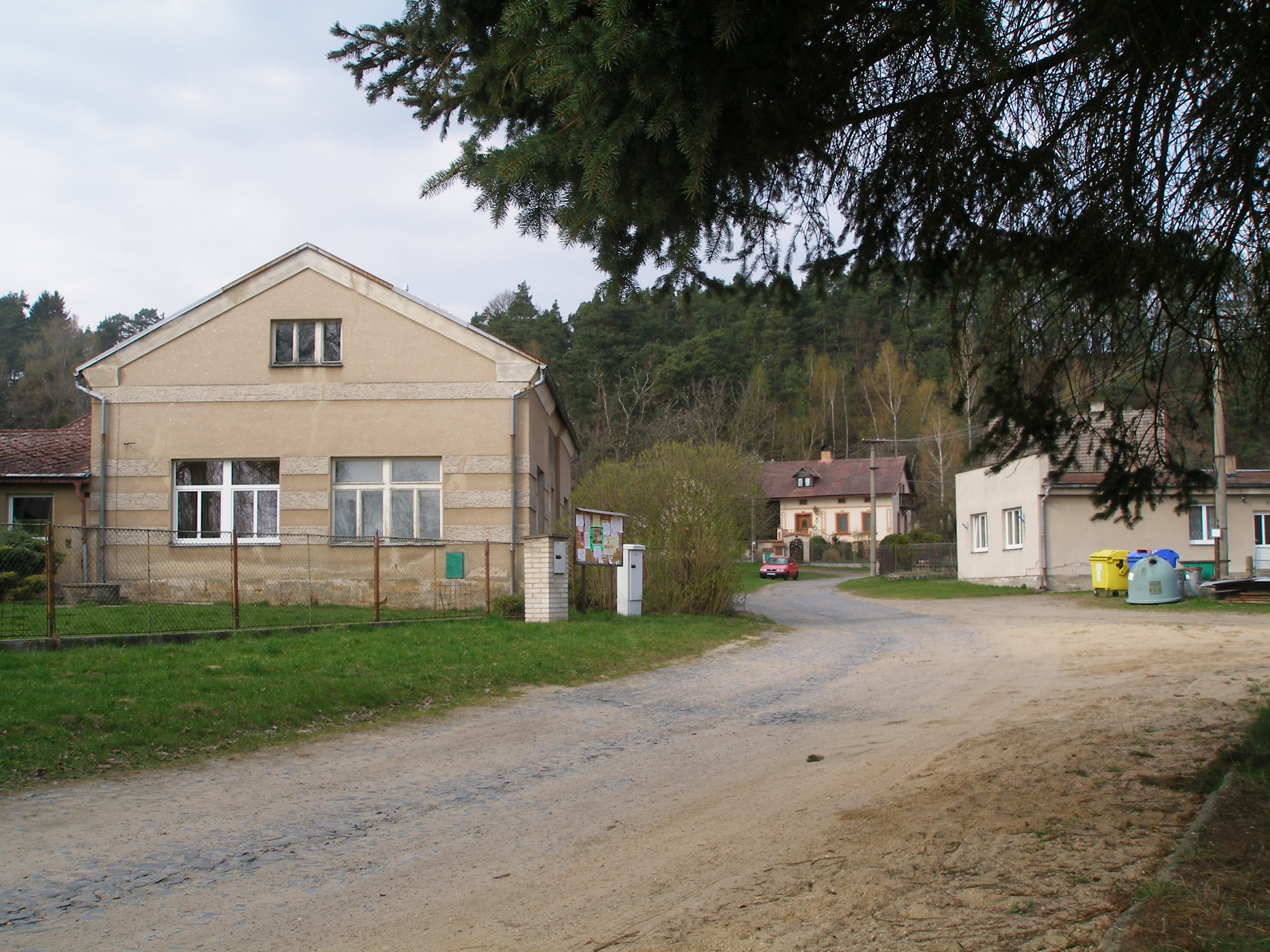 Houses in Solec.